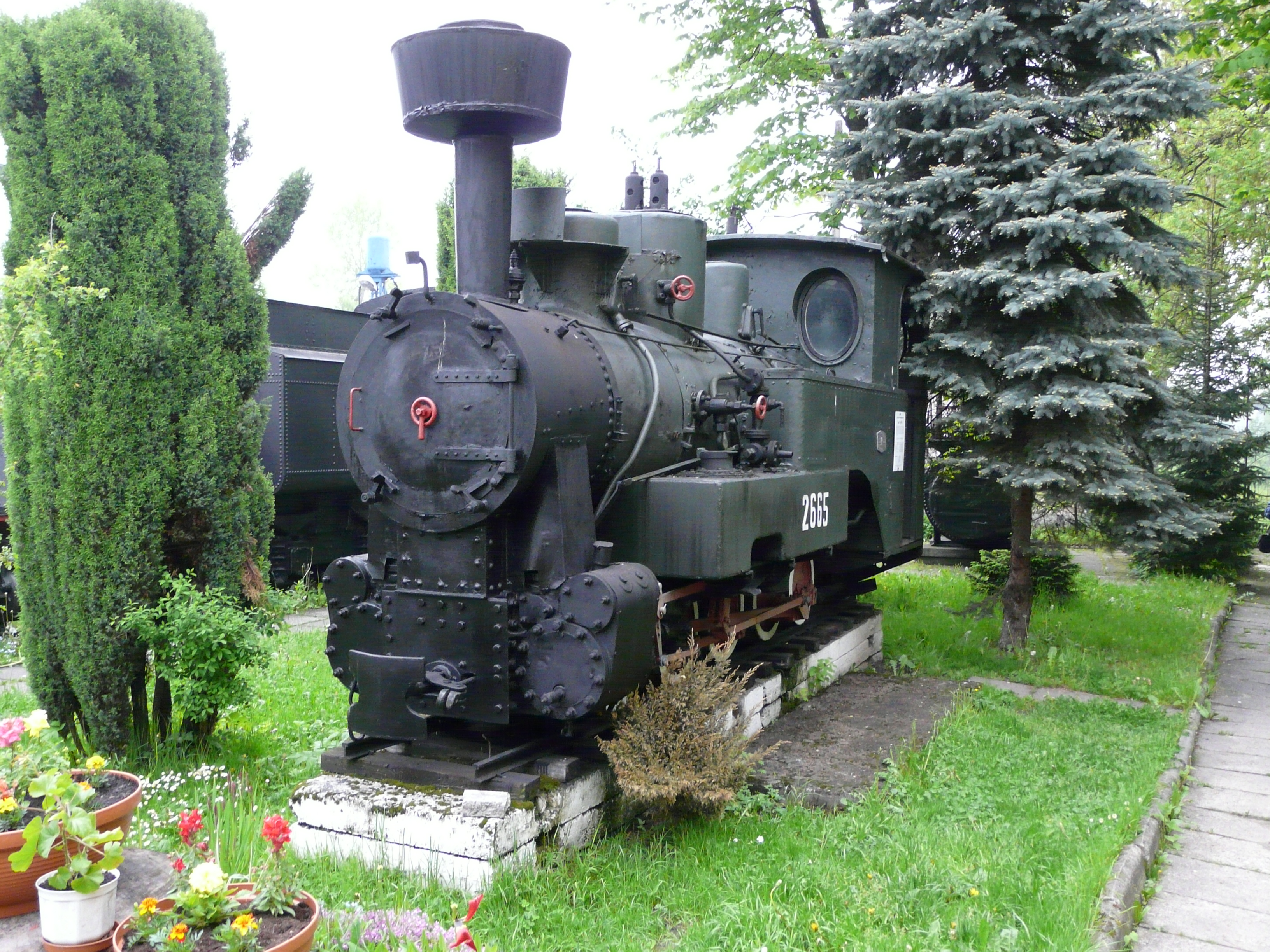 Tw1-591 narrow-gauge locomotive, built by BMAG (Schwartzkopff) in 1918 as HF 2665 (the only surviving example of BMAG Brigadelok En2t in the world). Chabówka Rolling-Stock Heritage Park, Poland